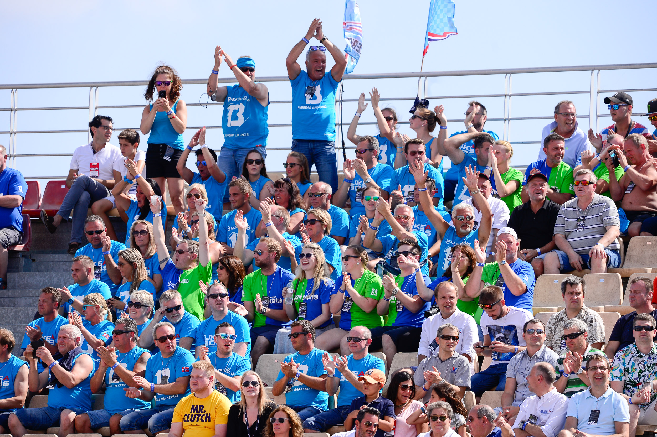 Supporters (in blue clothing) of Norwegian driver Andreas Bakkerud at Round 10 of the 2015 FIA World Rallycross Championship at Circuit de Catalunya, Spain.